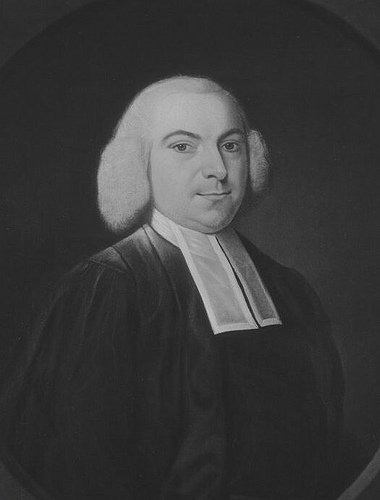 Portrait of Rev. Naphtali Daggett, sixth president (pro tempore) of Yale College, from 1766 until 1777. Daggett was a 1748 graduate of Yale College. Image courtesy of the Yale University Manuscripts & Archives Digital Images Database. Retouched by MarmadukePercy.